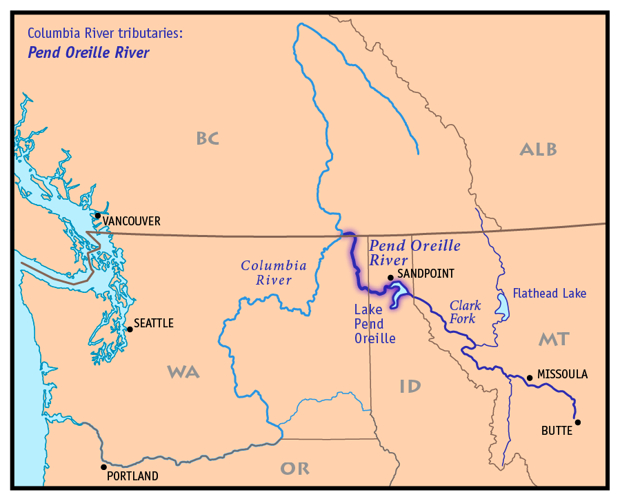 A map of the Pend Oreille River — a tributary of the Columbia River in Idaho and Washington, within the Columbia River Basin of the Northwestern United States and Western Canada. Showing a primary tributary of the Pend Oreille, the Clark Fork River). Credits I, Pfly, created it based on USGS and Digital Chart of the World data.